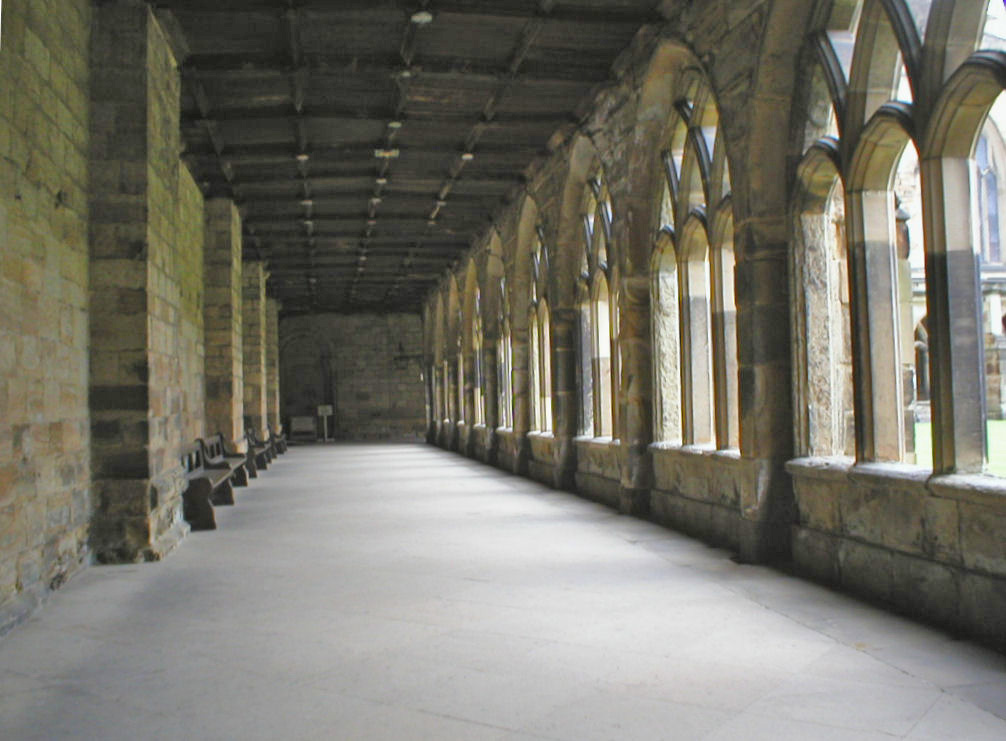 Durham Cathedral cloisters used to film the Harry Potter movies. The Cathdral dates back to 1096 and St Cuthbert's tomb within the Cathedral was a place of pilgrimage in the Middle Ages. 31 December 2005 - #345 on Explore Published at .